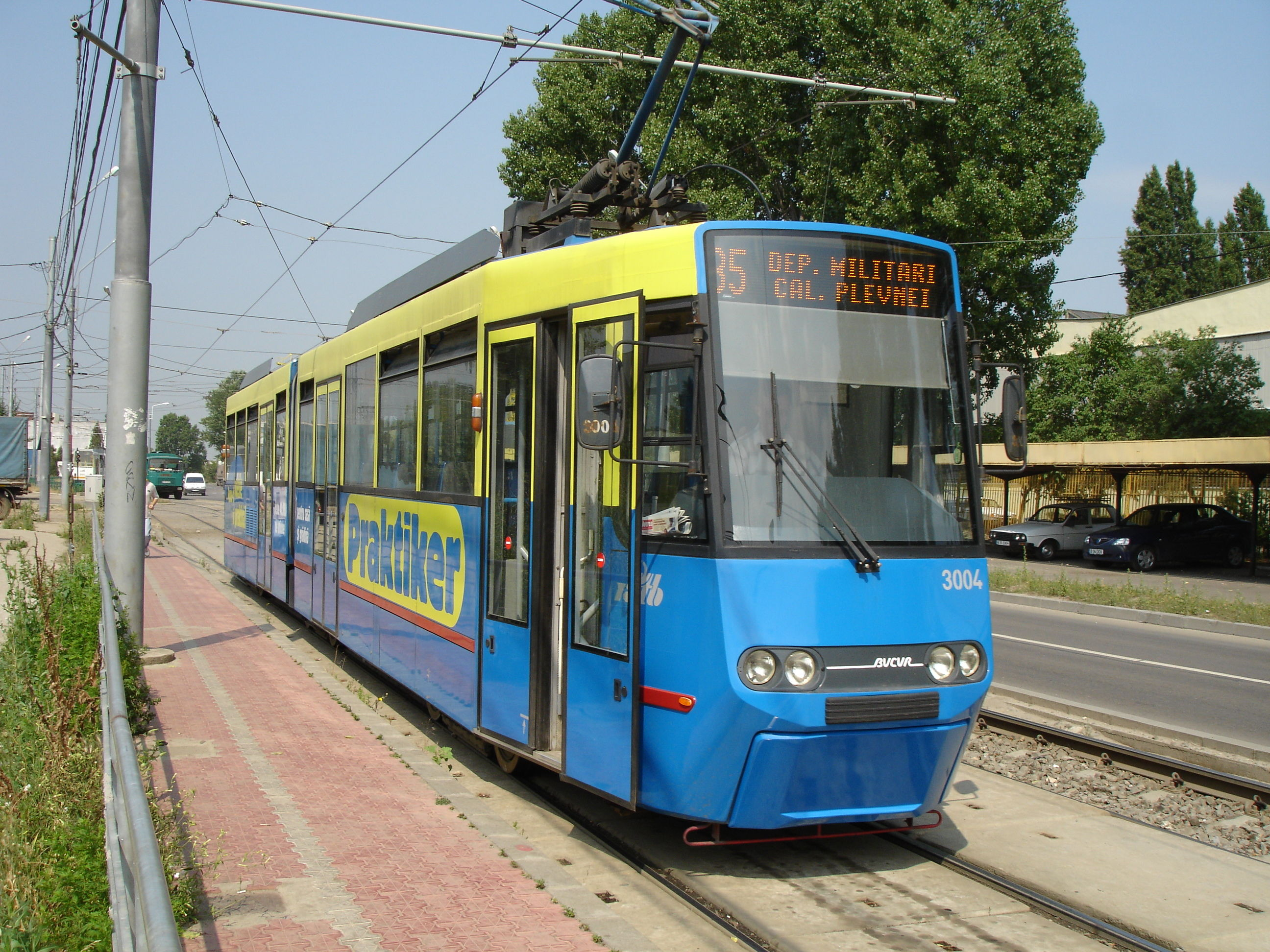 Tram in Bucharest, Romania (V2A-T type). RATB București company.